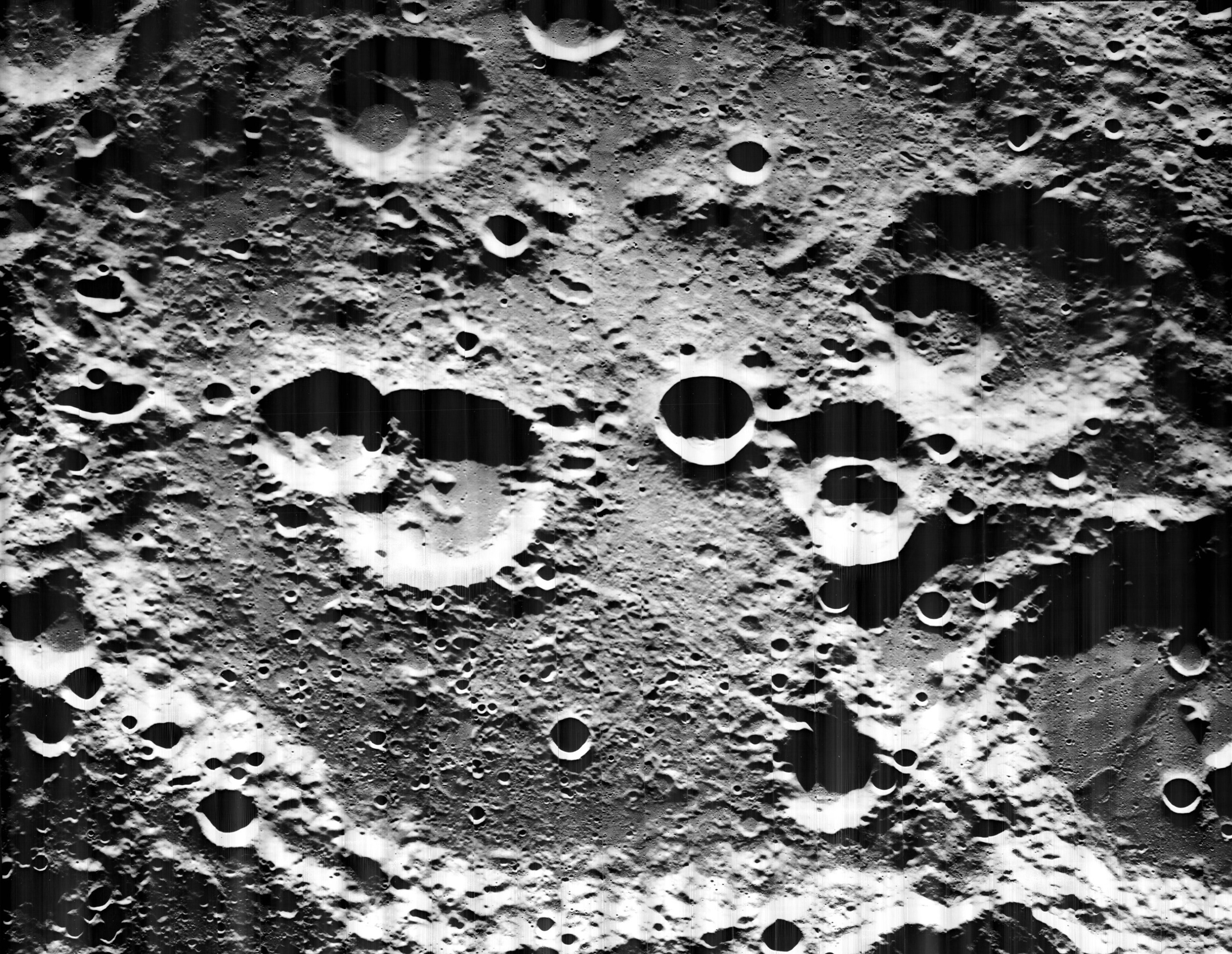 Oblique view of Birkhoff, on the far side of the moon, facing west.